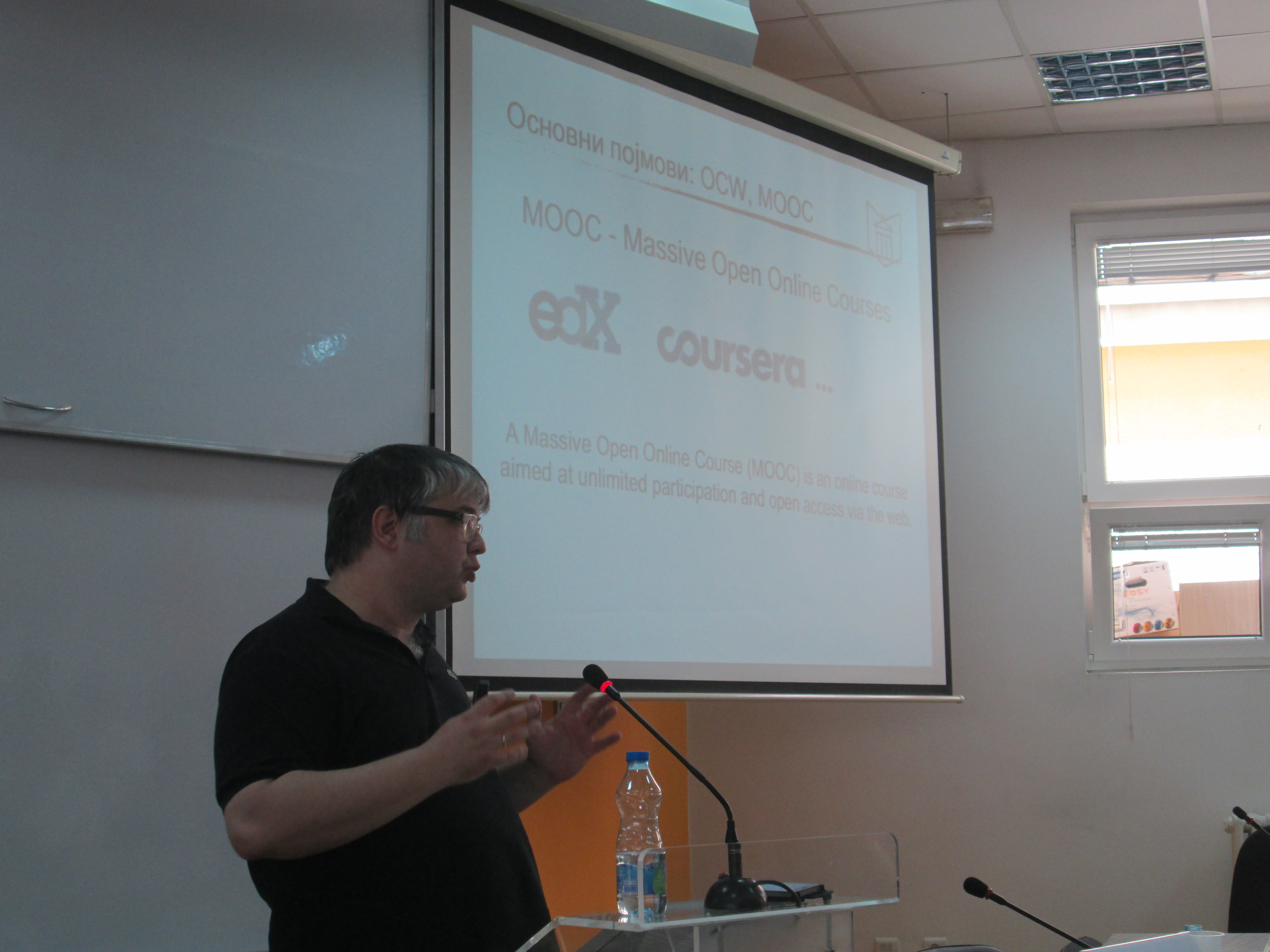 Conference on Open education and teachers' digital competences, Adam Sofronijević, OCW vs. MOOC Српски (ћирилица): Конференција о отвореном образовању и дигиталним компетенцијама наставника, Адам Софронијевић, OCW vs. MOOC